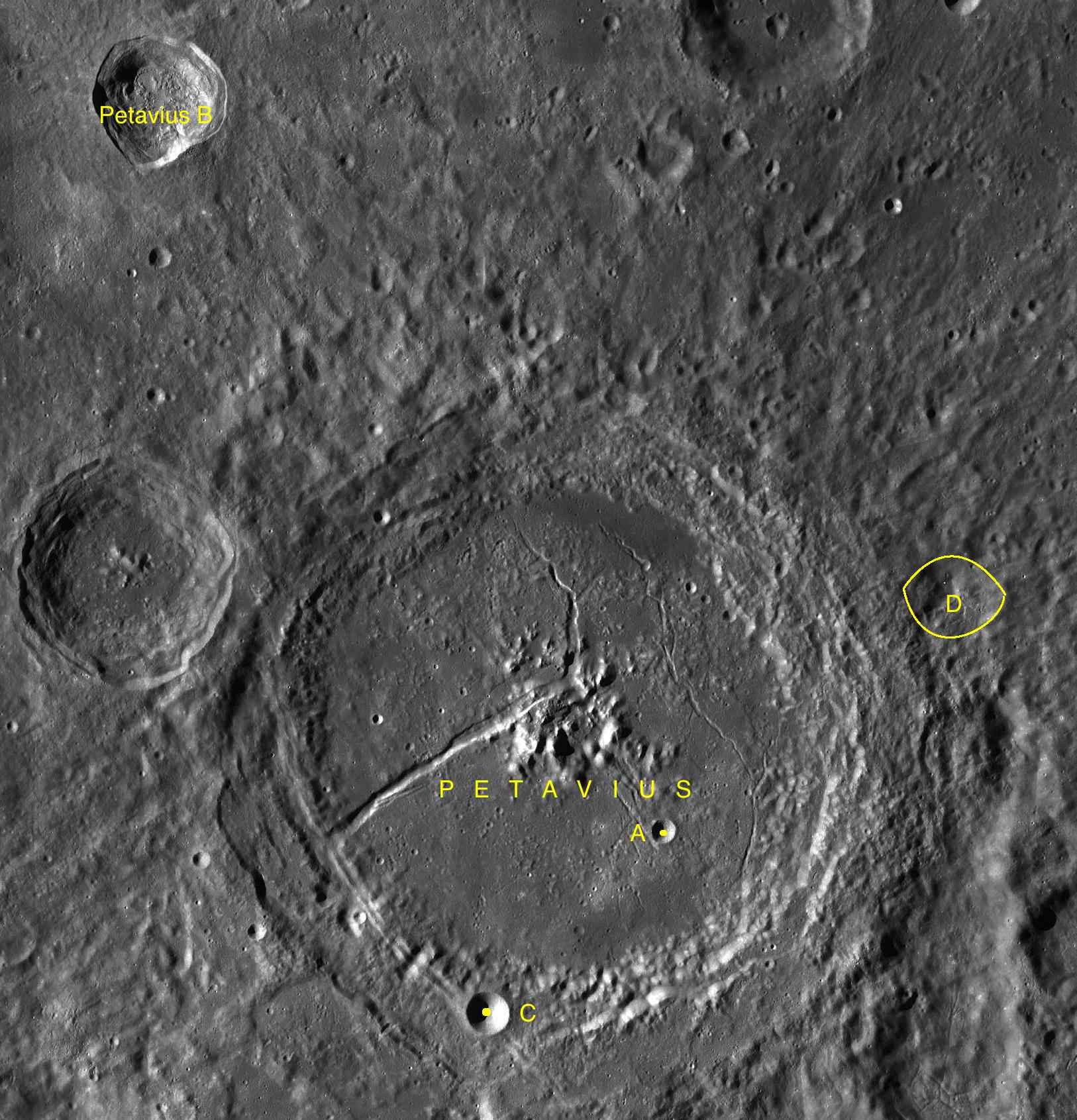 Part of the chart LAC-98 used for the presentation.